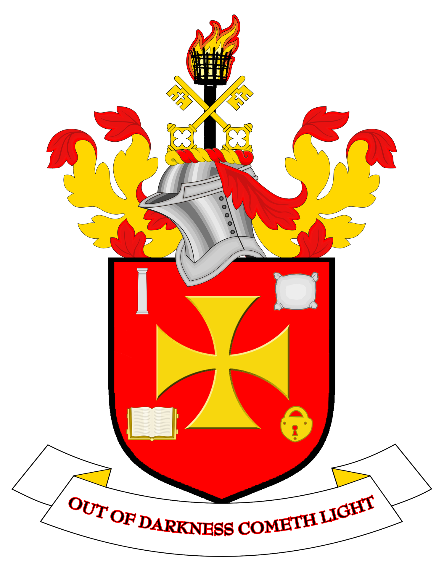 The Coat of arms of Wolverhampton City Council, the local government authority of the City of Wolverhampton, a metropolitan district of the West Midlands, England. The blazon is:ARMS: Gules a cross formee or between a pillar in the first quarter a woolpack in the in the second an open book with clasps in the third all argent and in the fourth a padlock of the second.CREST: A wreath of the colours in front of a beacon sable fired proper two keys in saltire wards upwards or.